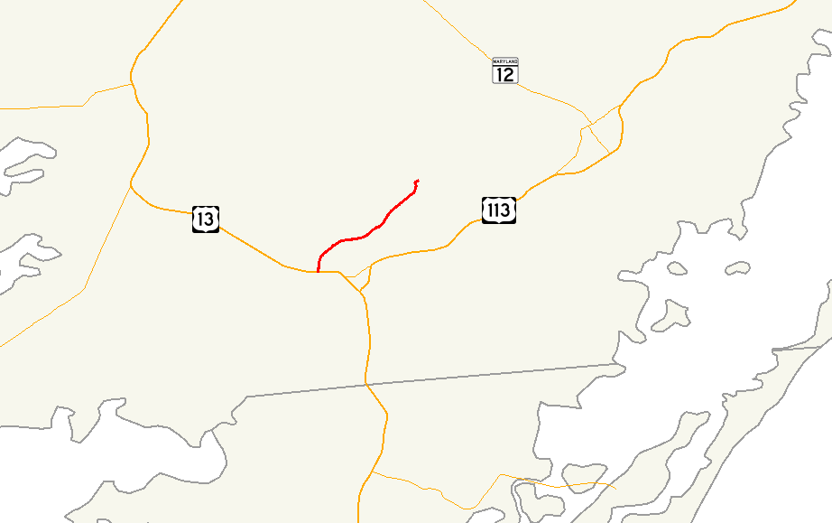 Map of Maryland 364